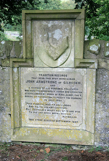 John Armstrong memorial. This stone was erected in Teviot Parish Churchyard in 1897 to commemorate the Scottish reiver Johnnie Armstrong, who along with 50 of his followers, was hanged without trial and buried nearby in 1530 1005292. "JOHN MURDERED WAS AT CARLINRIGG AND ALL HIS GALLANT COMPANIE, BUT SCOTLAND'S HEART WAS NE'ER SAE WAE TO SEE MONY BRAVE MEN DIE"